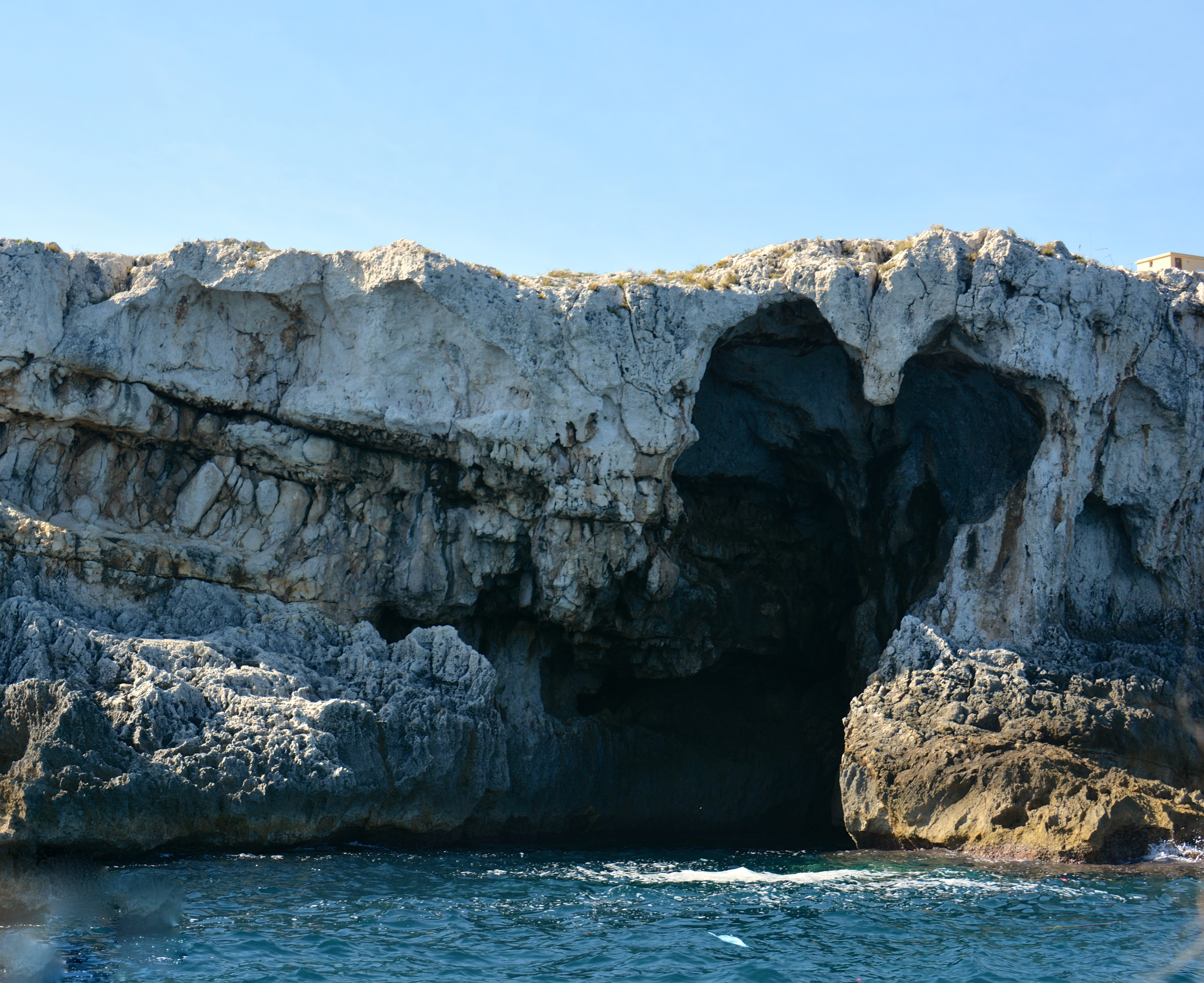 Boat trip, Syracuse - Heart